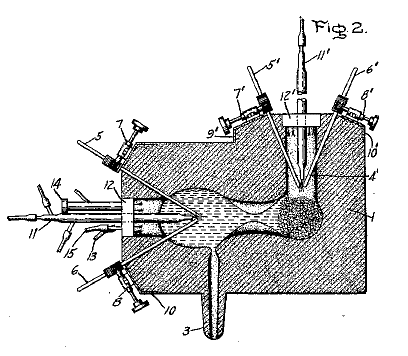 US Patent 1952927, Irwing Langmuir, Furnace, the 1st drawing, cut-out of the